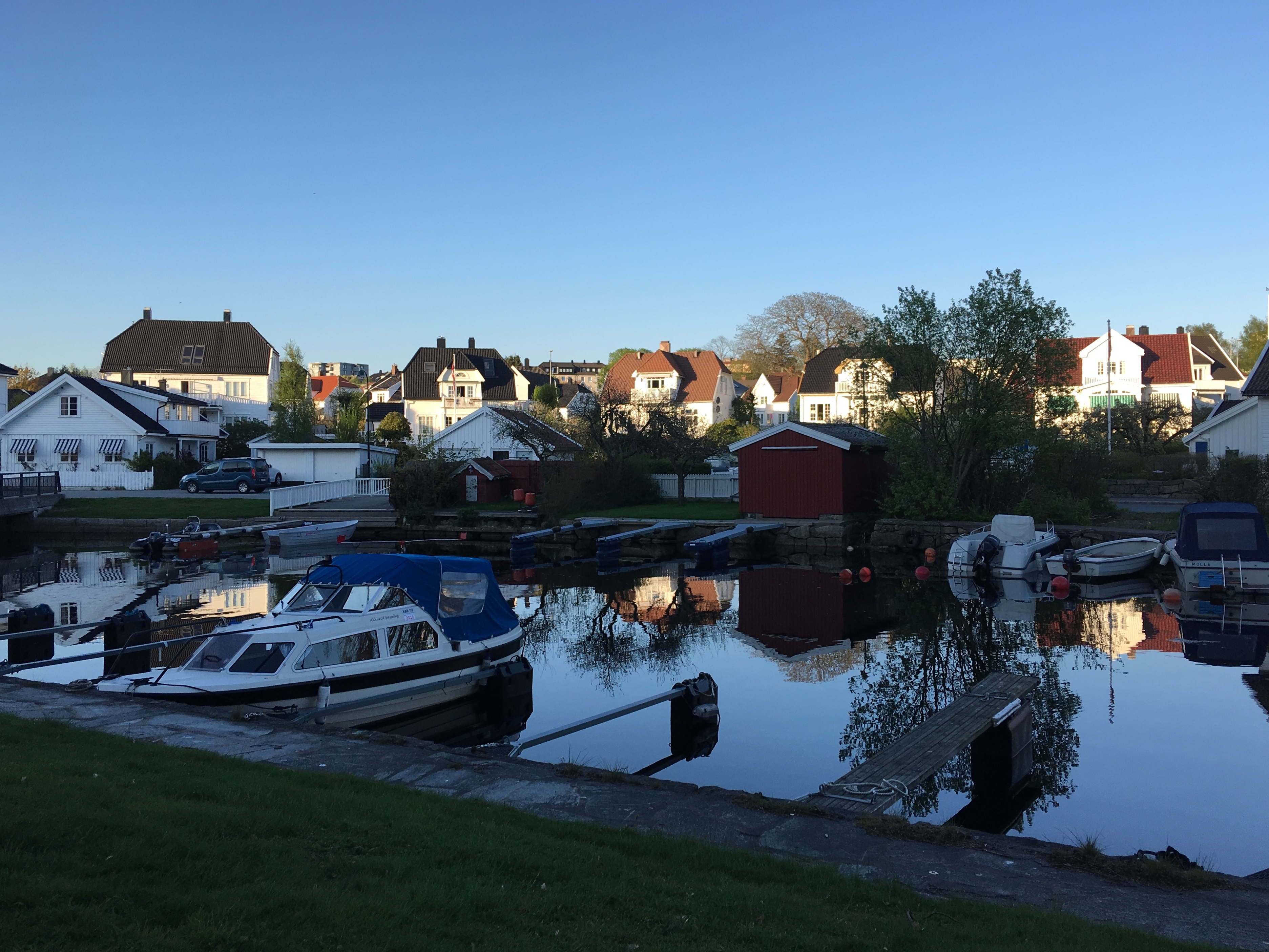 Kjøita Park with Lower Lund, Kristiansand